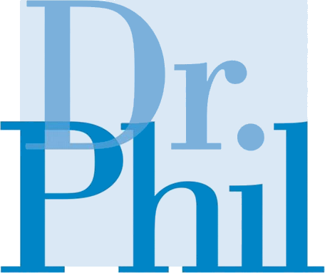 Logo for Dr. Phil, the TV series.